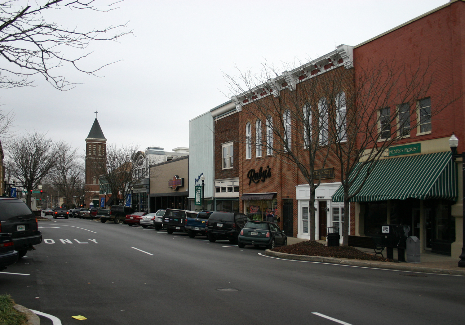 Downtown Murfreesboro, Tennessee Image copyleft: Image taken by me, released under GFDL, Pollinator 04:42, 25 January 2006 (UTC)